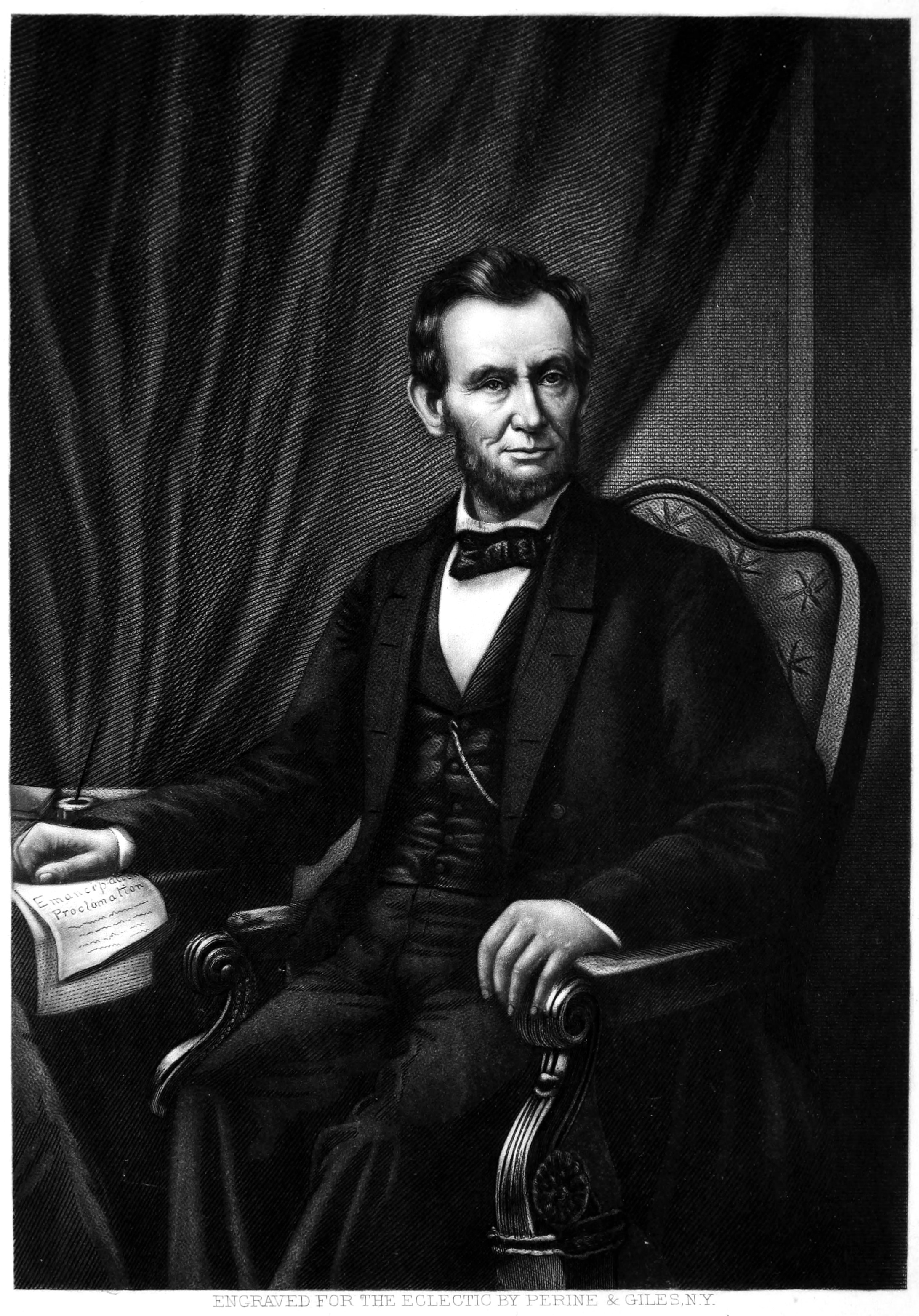 Memorial portrait of Abraham Lincoln with the Emancipation Proclamation